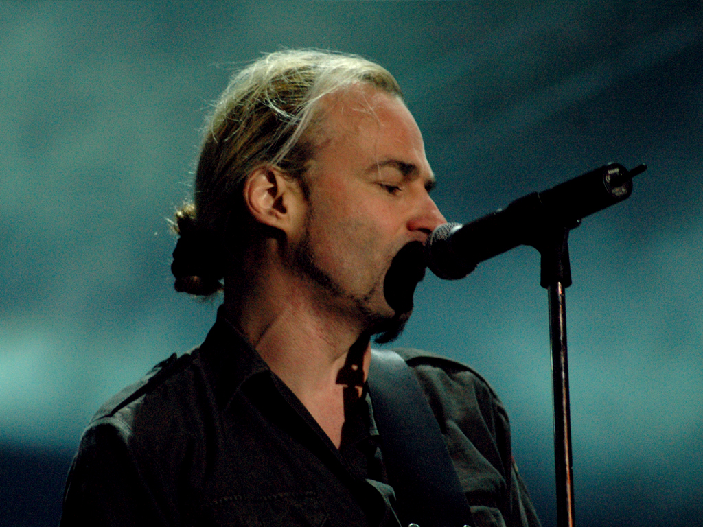 Vorph from Samael on Hunter Fest 2007